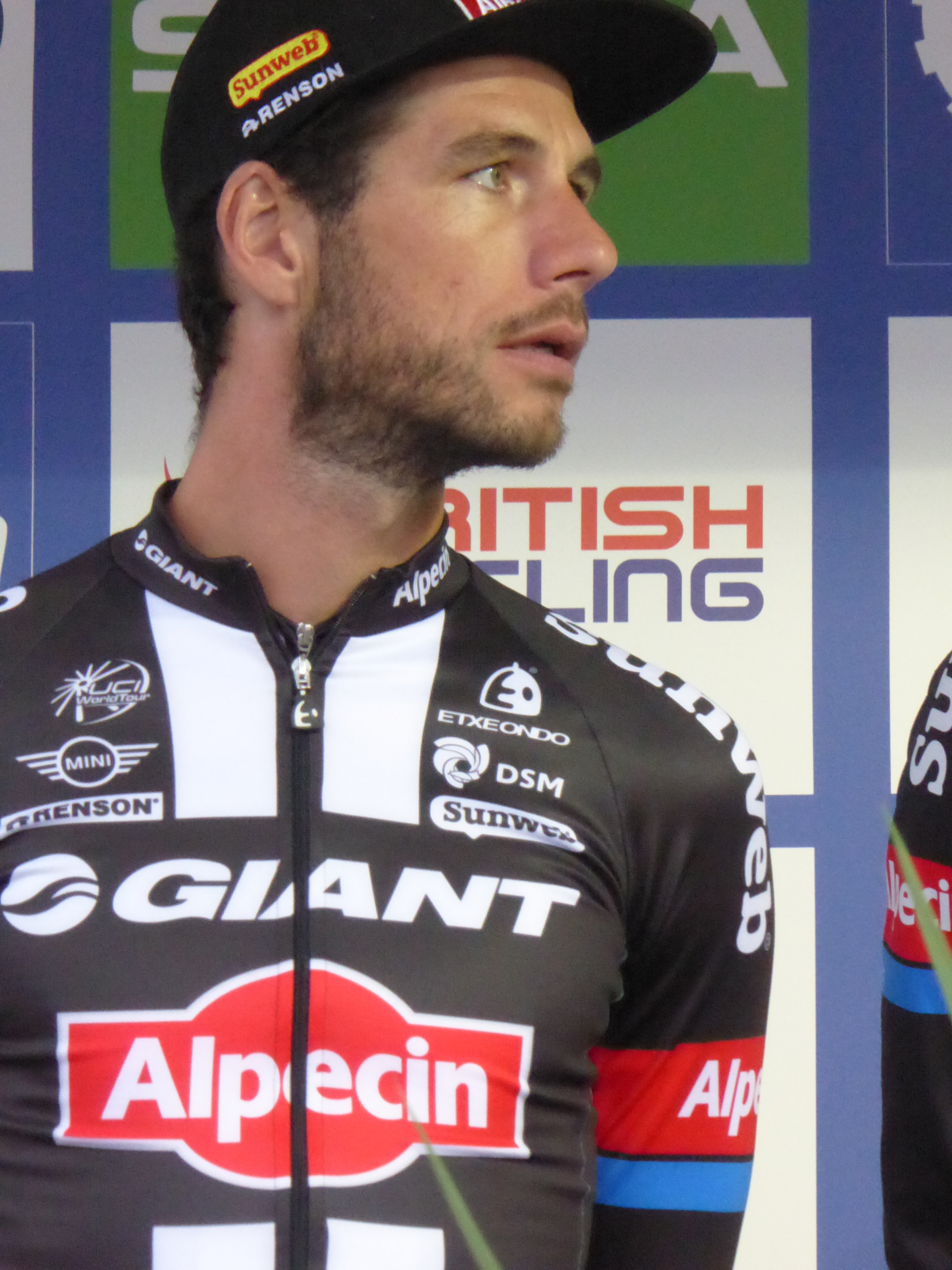 Roy Curvers (Team Giant-Alpecin), pictured at the 2016 Tour of Britain team presentation in Glasgow on 3 September 2016.